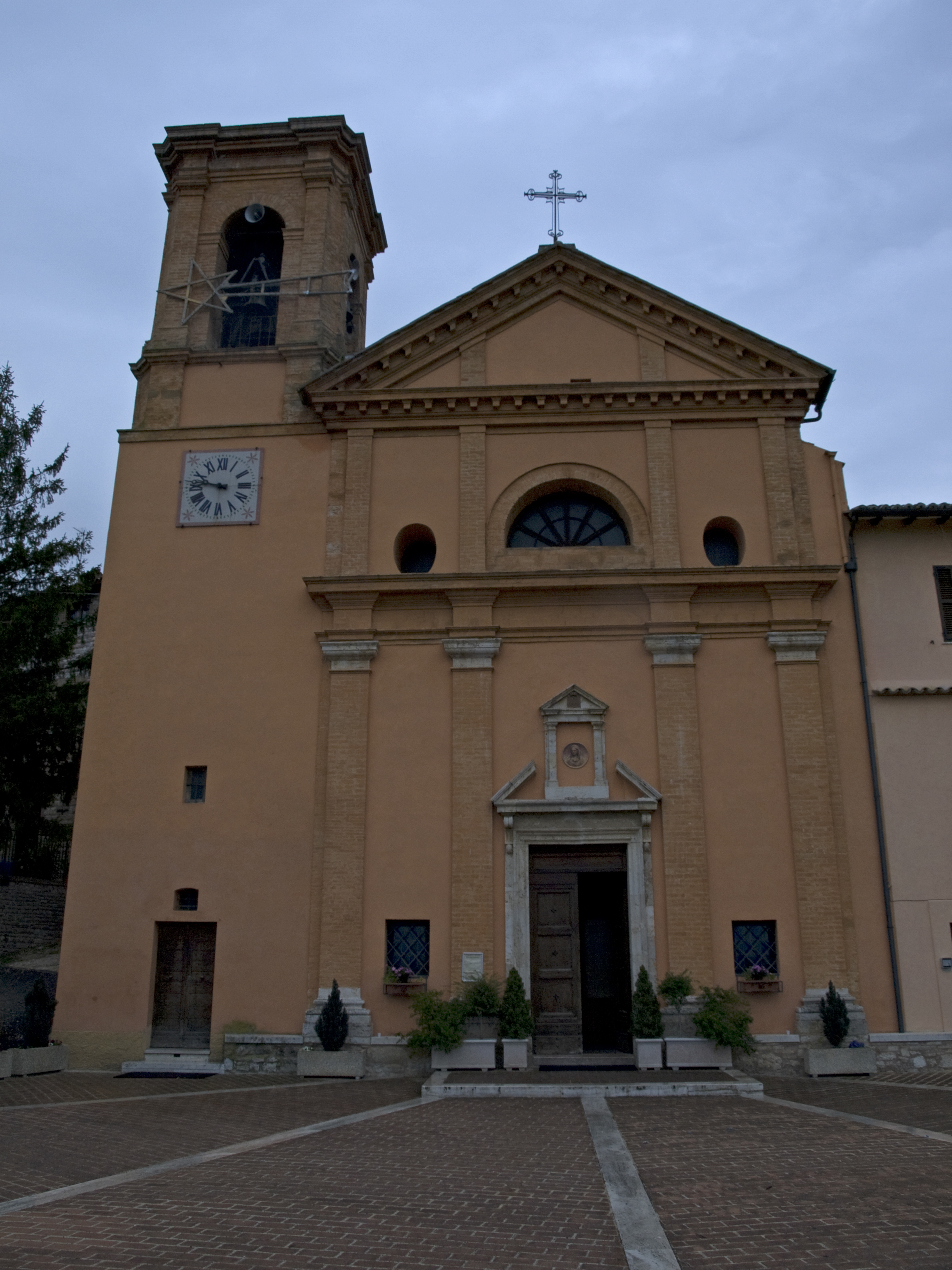 Basilica San Vitale, San Vitale (Assisi)